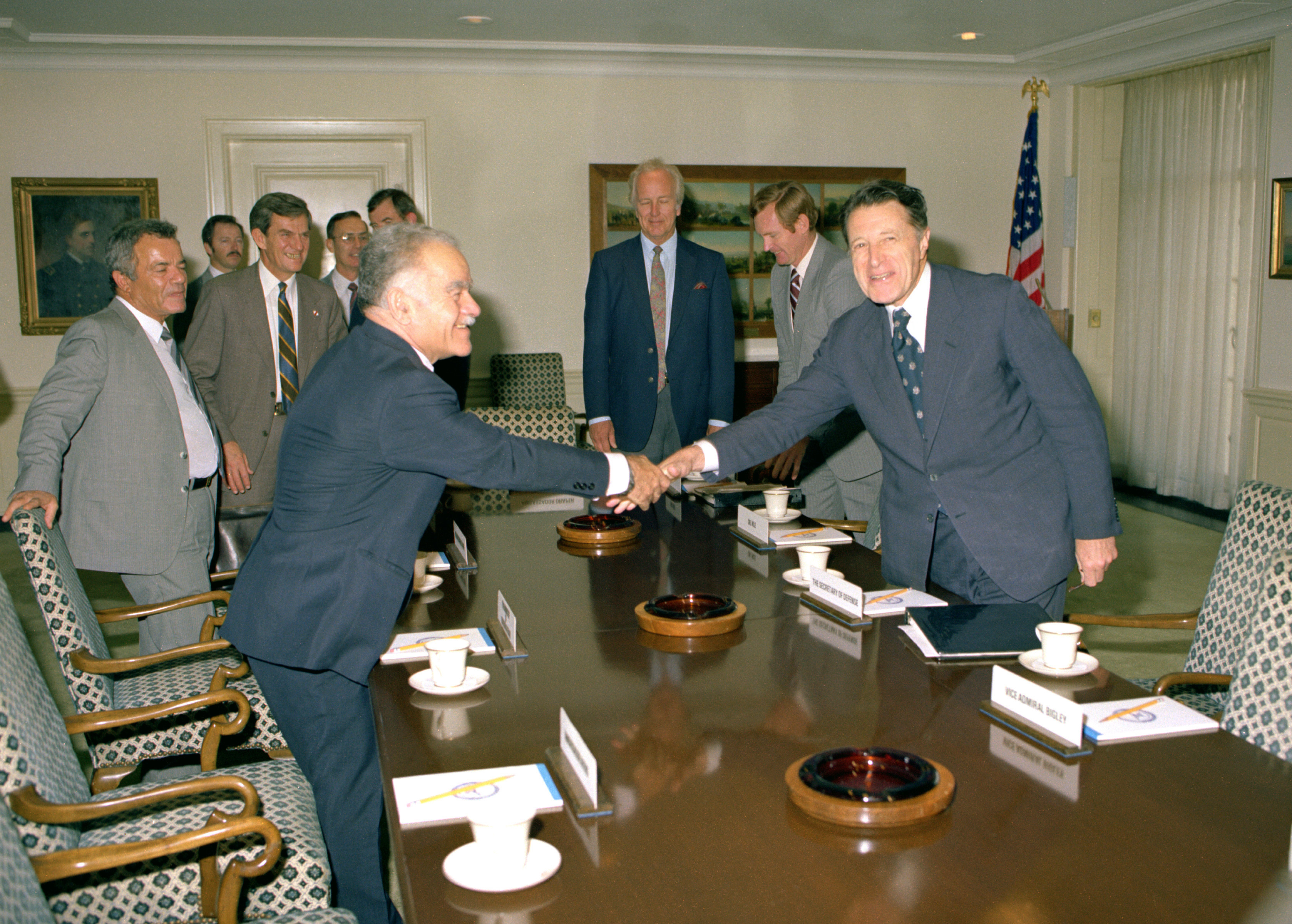 Secretary of Defense Caspar Weinberger (right) greets Minister of Foreign Affairs Yitzhak Shamir of Israel in a Pentagon Conference Room, room 3E912.